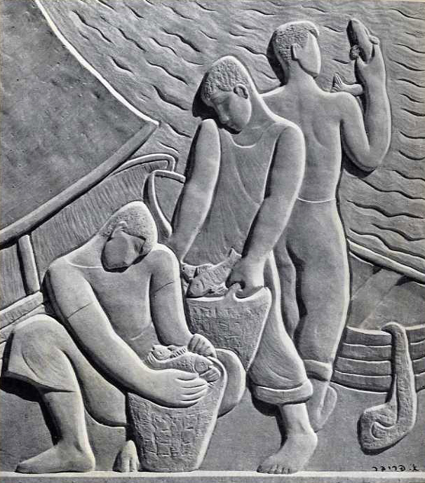 Relife by Aharon Priver. photo by Y. Zafrir 1956.